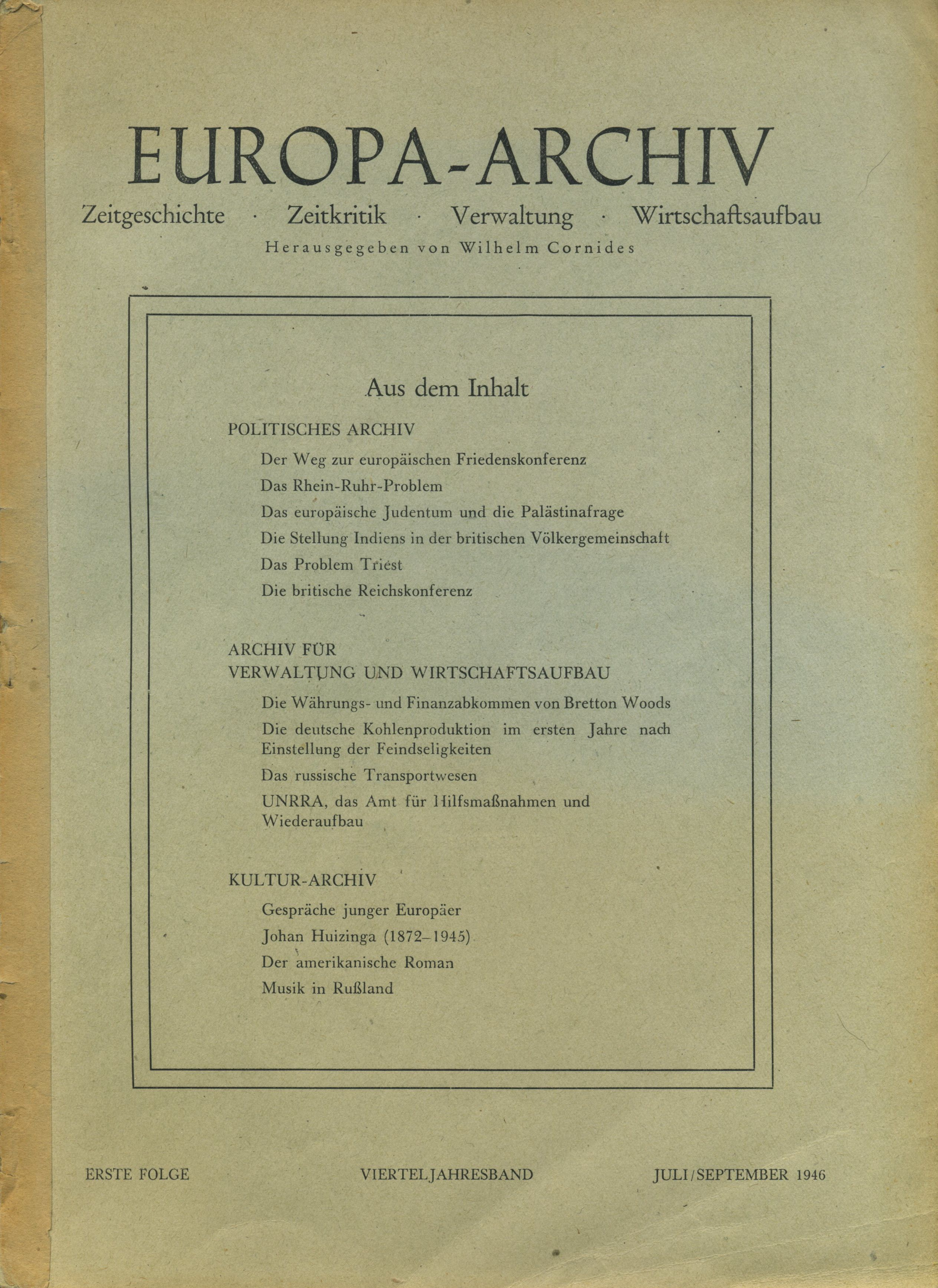 Cover Europa Archiv 7-1946